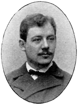 Image scanned from the book "Svenskt Porträttgalleri XX - Arkitekter, Bildhuggare, Målare m.fl. " ("Swedish Portrait Gallery XX - Architects, Sculptors, Painters, ") published 1901